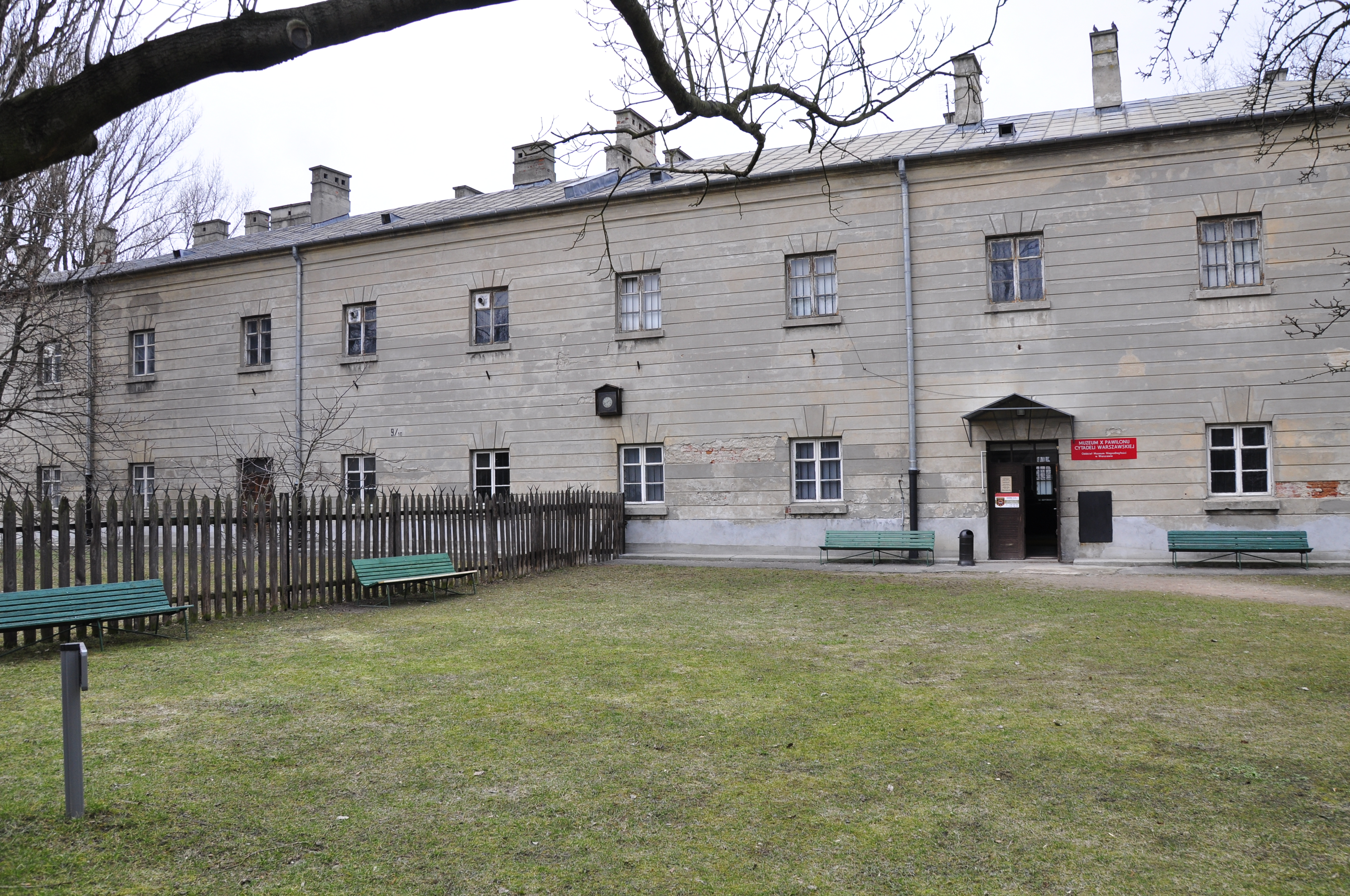 Muzeum X Pawilonu Cytadeli Warszawskiej